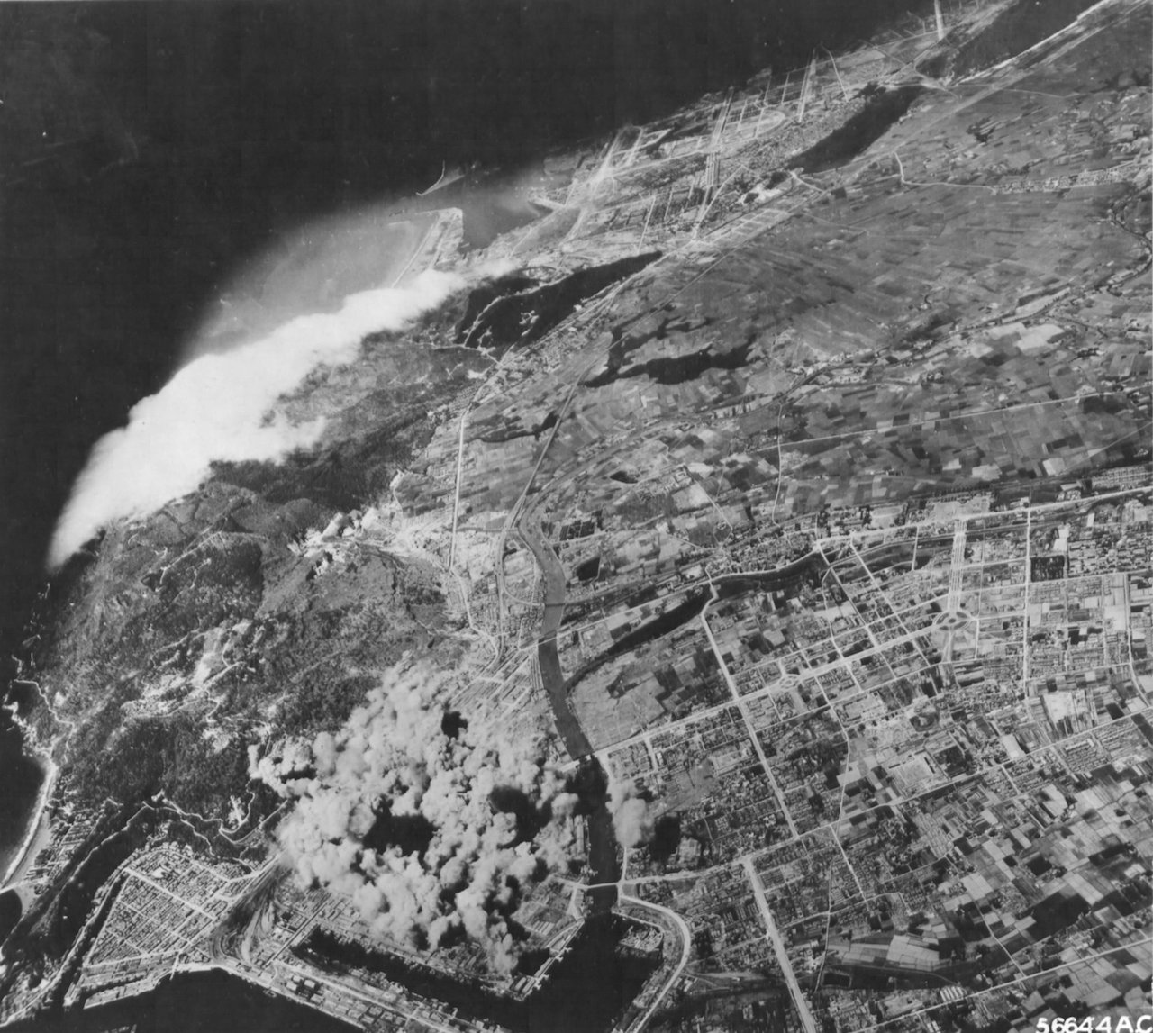 Bân-lâm-gú: A photo record of the bombardment of Takao on 1945-02-27 (ref: 空襲福爾摩沙; isbn: 978-957-801-757-3)